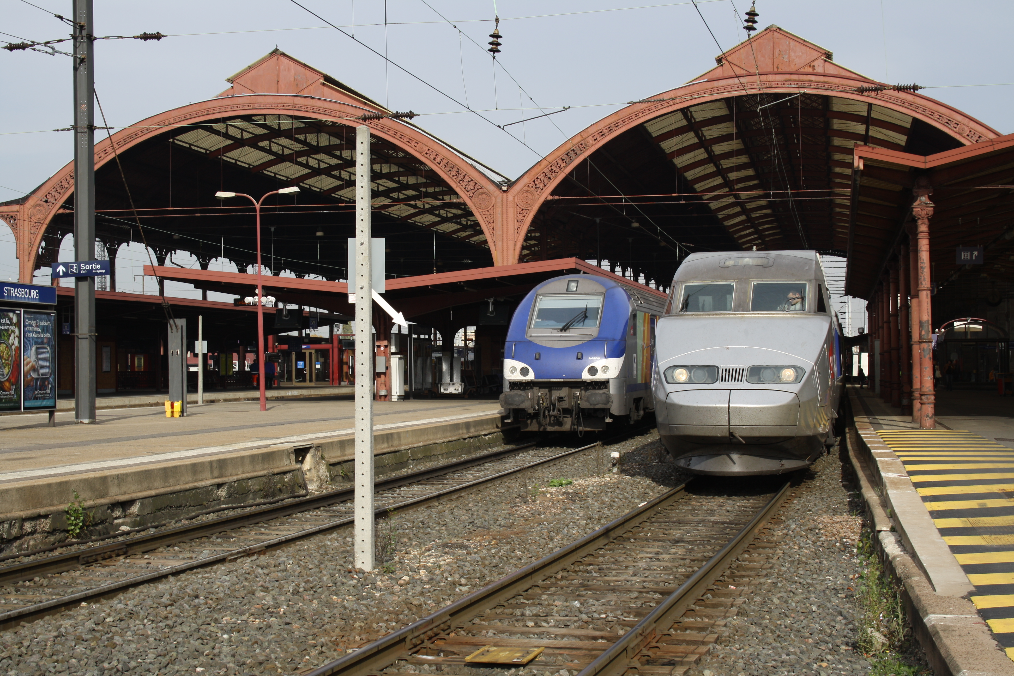 Two trains at Gare de Strasbourg